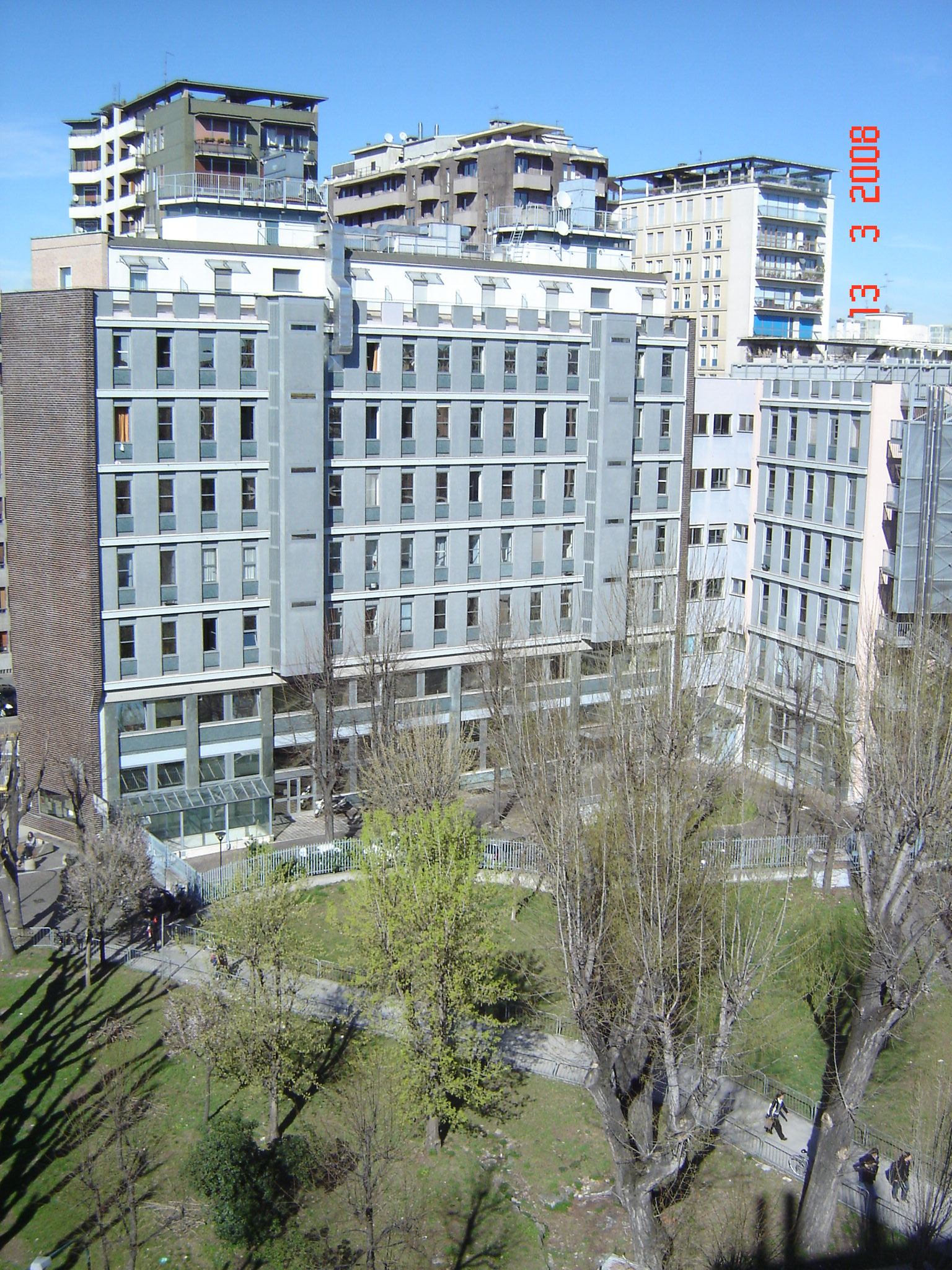 Università degli Studi di Milano, ISU Palace, via Santa Sofia (student dormitory)